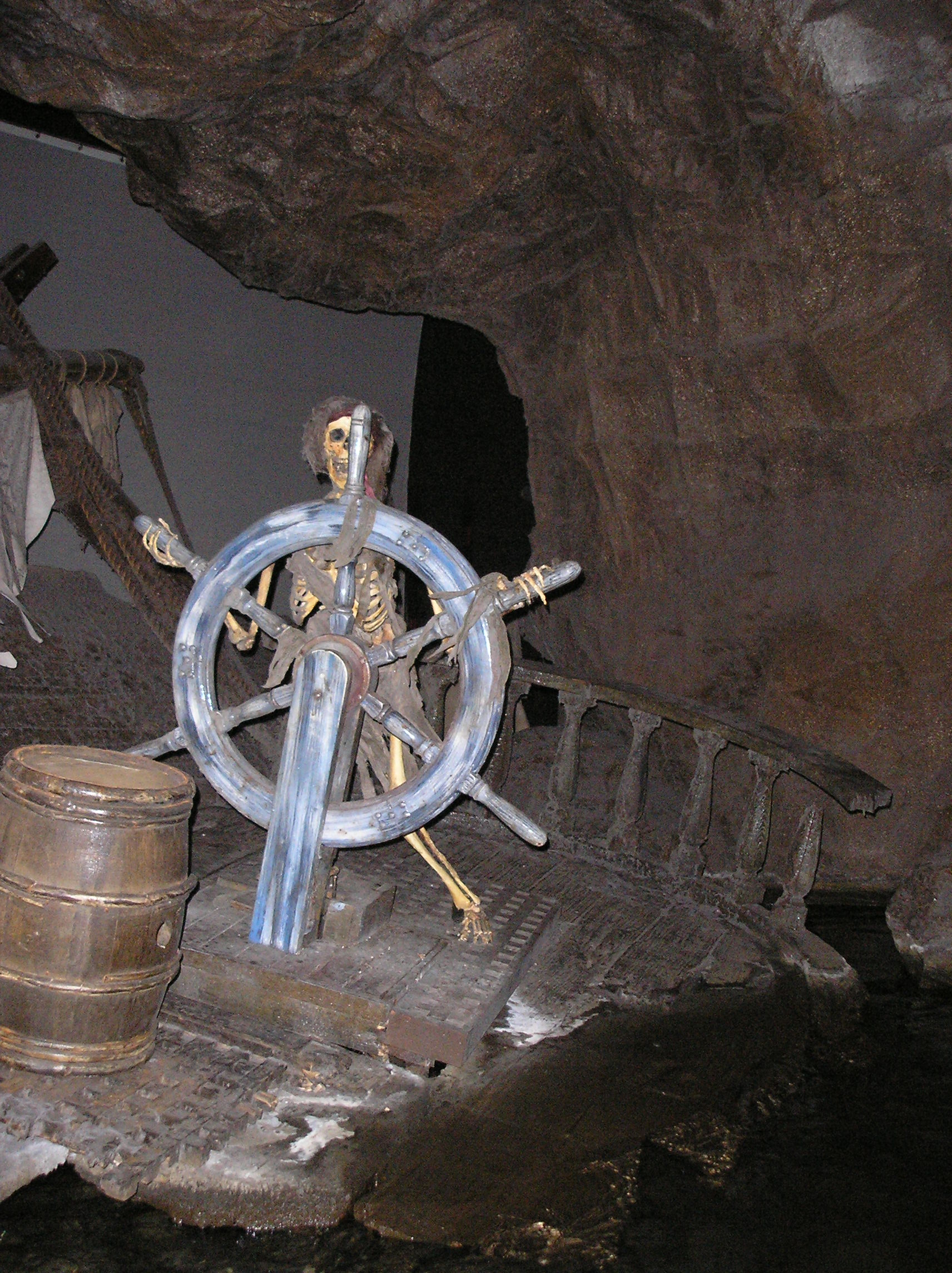 An image from inside the ride in the Disney Theme Park